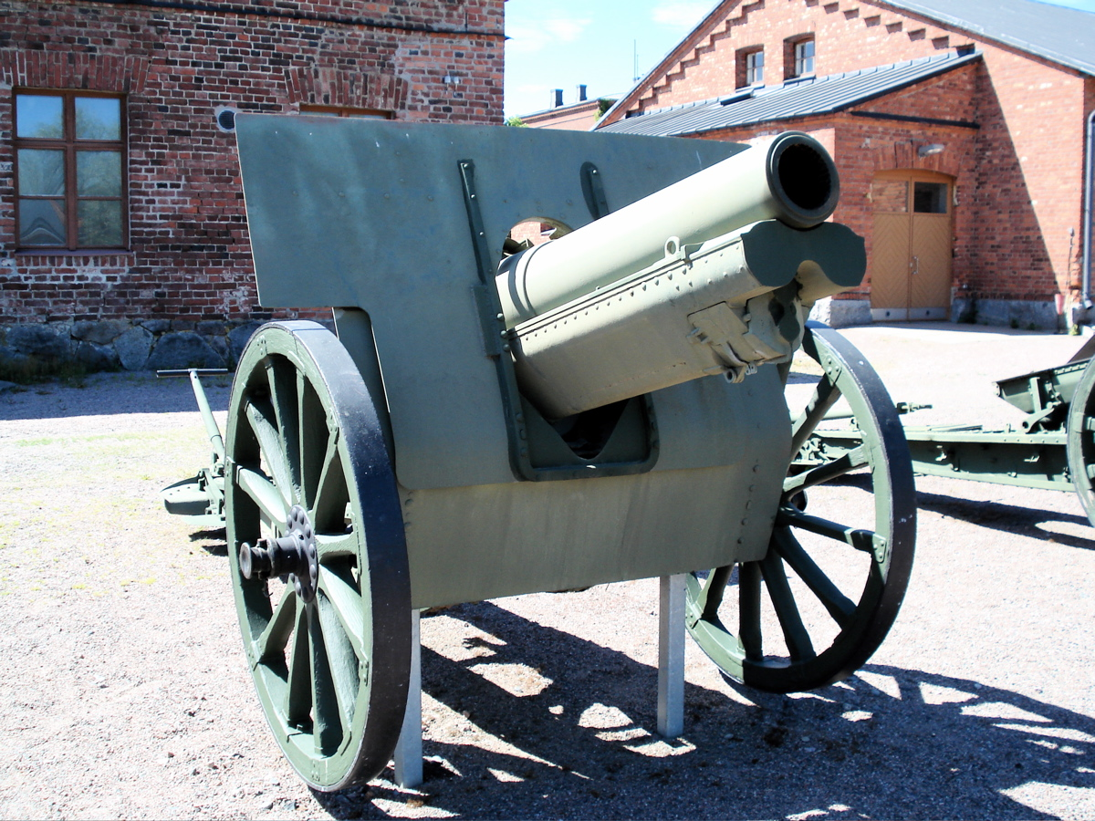 Russian 152 mm howitzer Model 1910 Schneider (6 dm polevaja gaubitsa sistemy Schneidera) , displayed in Hämeenlinna Artillery Museum. This particular gun was manufactured in Perm in 1917. Photo taken on June 18, 2006. Source: Photo by me, User:Balcer.